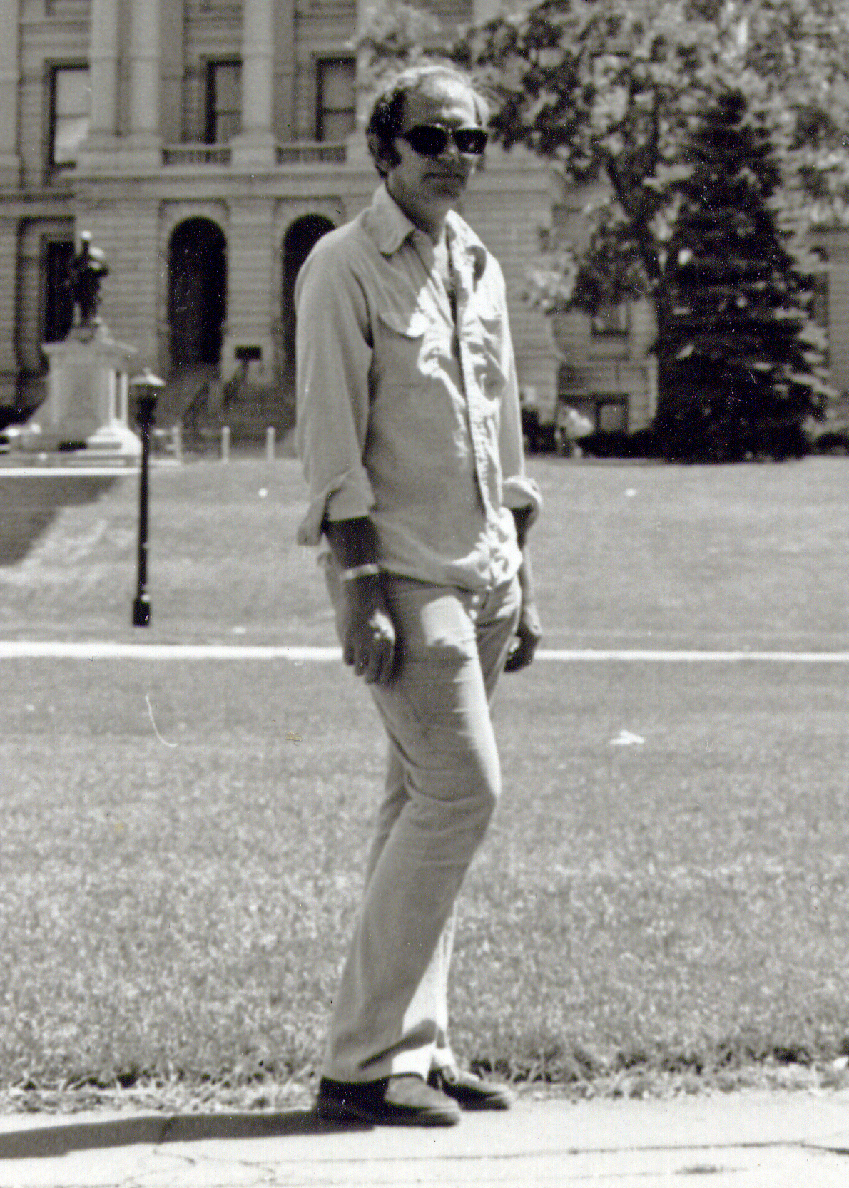 Lyman Andrews visiting American family in 1979